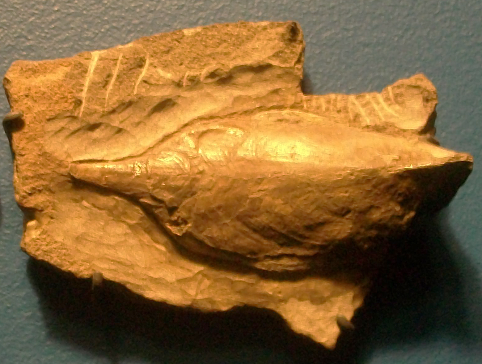 Fossil of Pteraspis crouchi in the Field Museum of Natural History.